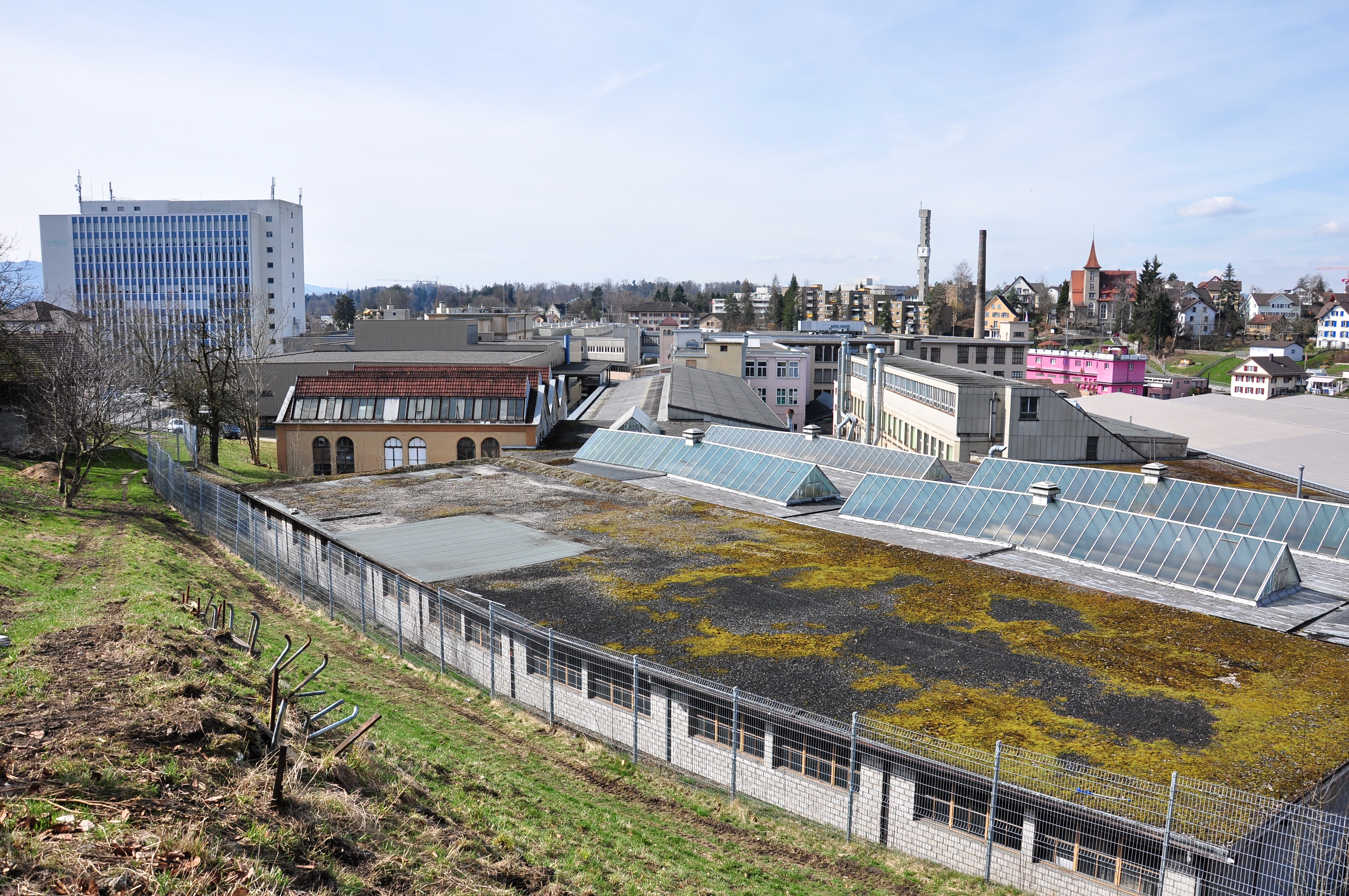 Rüti (to the left) and Tann-Rüti, as seen from Haltberg in Rüti, Joweid (=meadow of the Jona river) valley in the foreground.